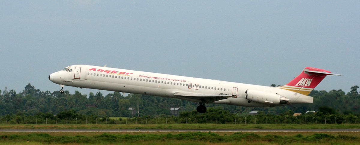 Angkor Airways' McDonnell Douglas MD-83 (XU-AKA) taking off from Siem Reap International Airport, Cambodia